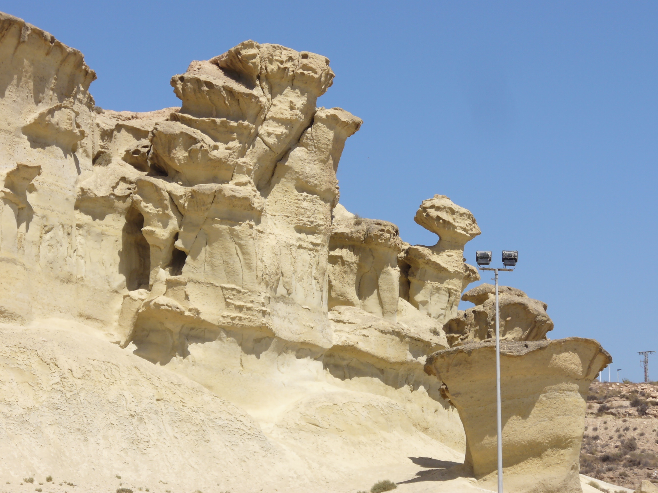 When I look at what the wind has carved in all nature beauty,the sculptures are buildings.